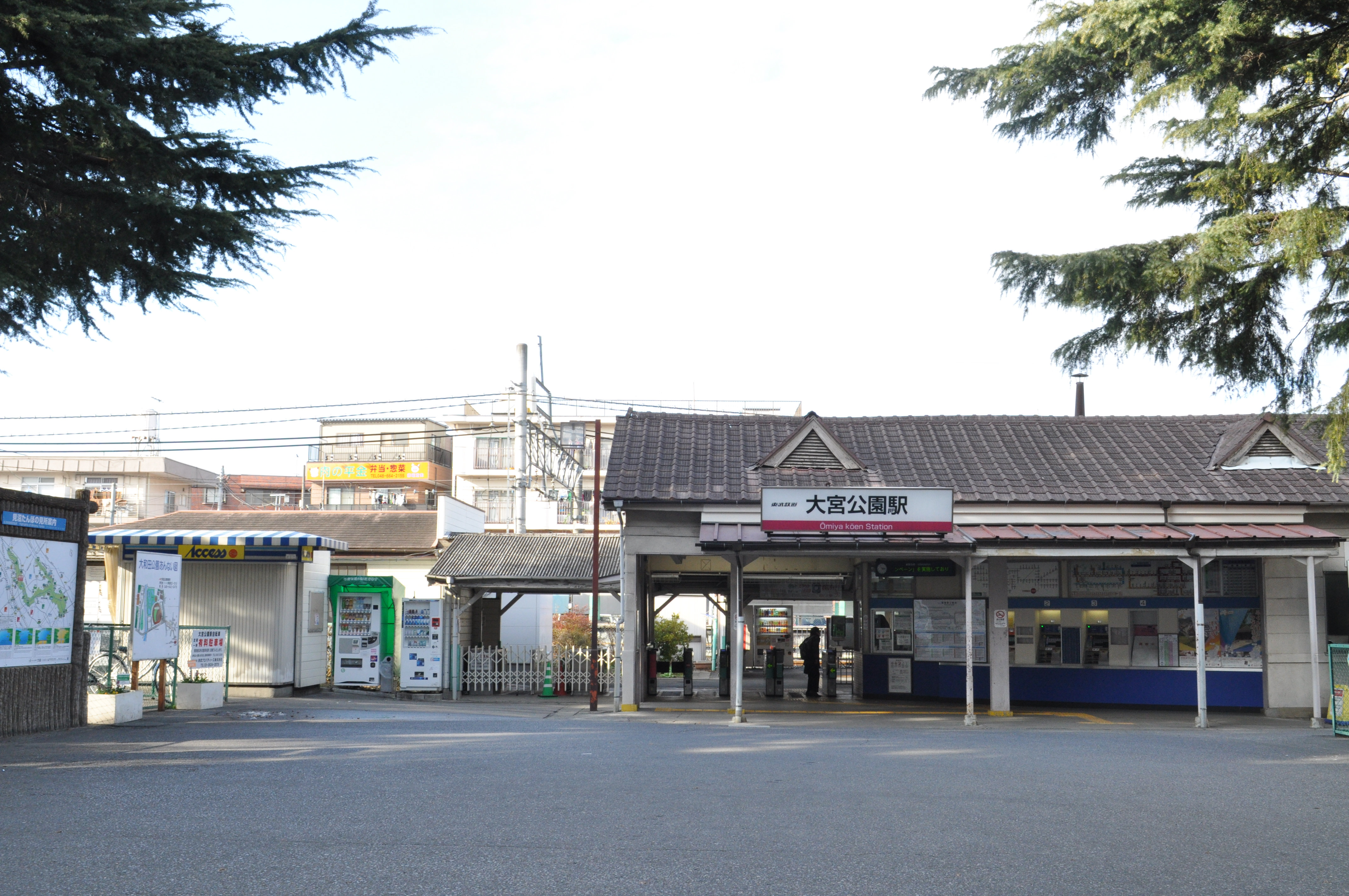 Ōmiya-Kōen Station on the Tobu Urban Park Line